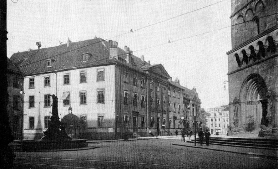 Photography of the Stadthaus of Bremen